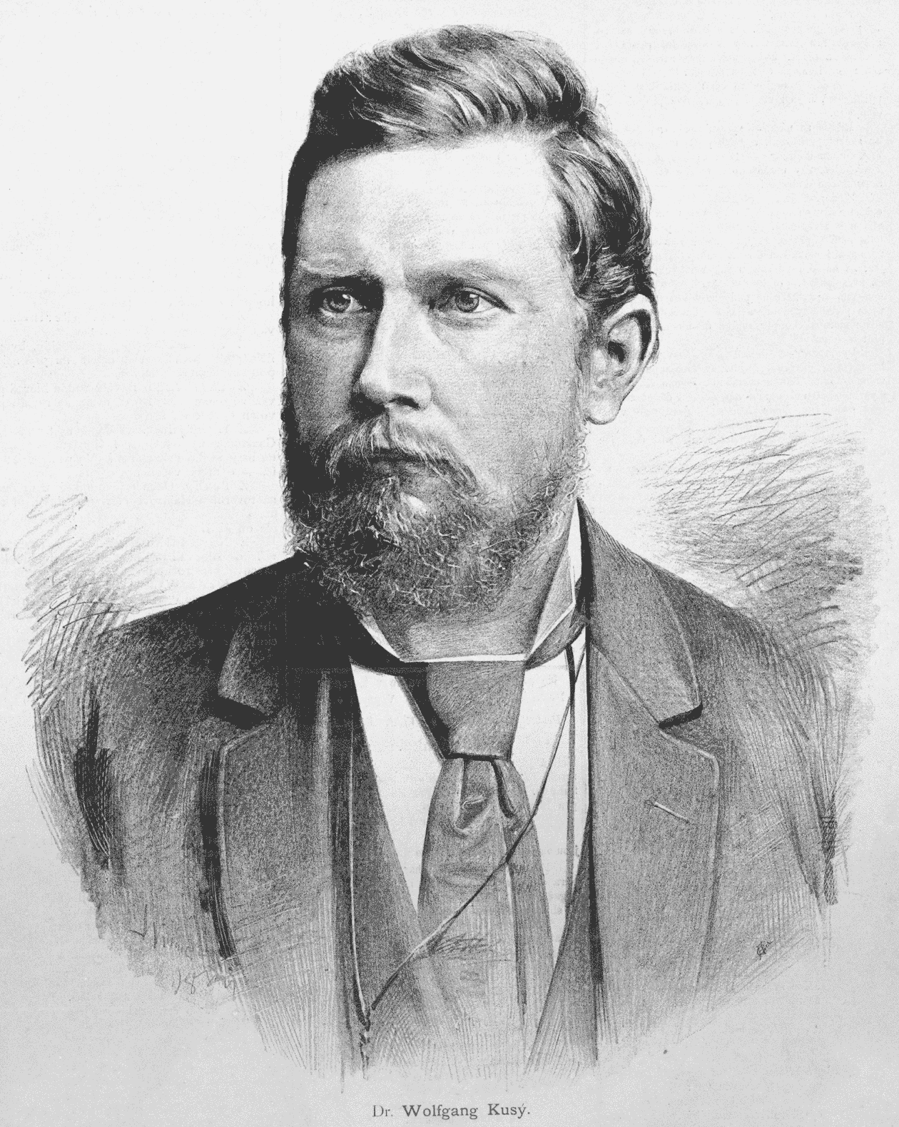 Portrait of Wolfgang Kusý (1842 - 1886), Moravian lawyer and politician, promoter of Czech-language schools and culture in Brno.